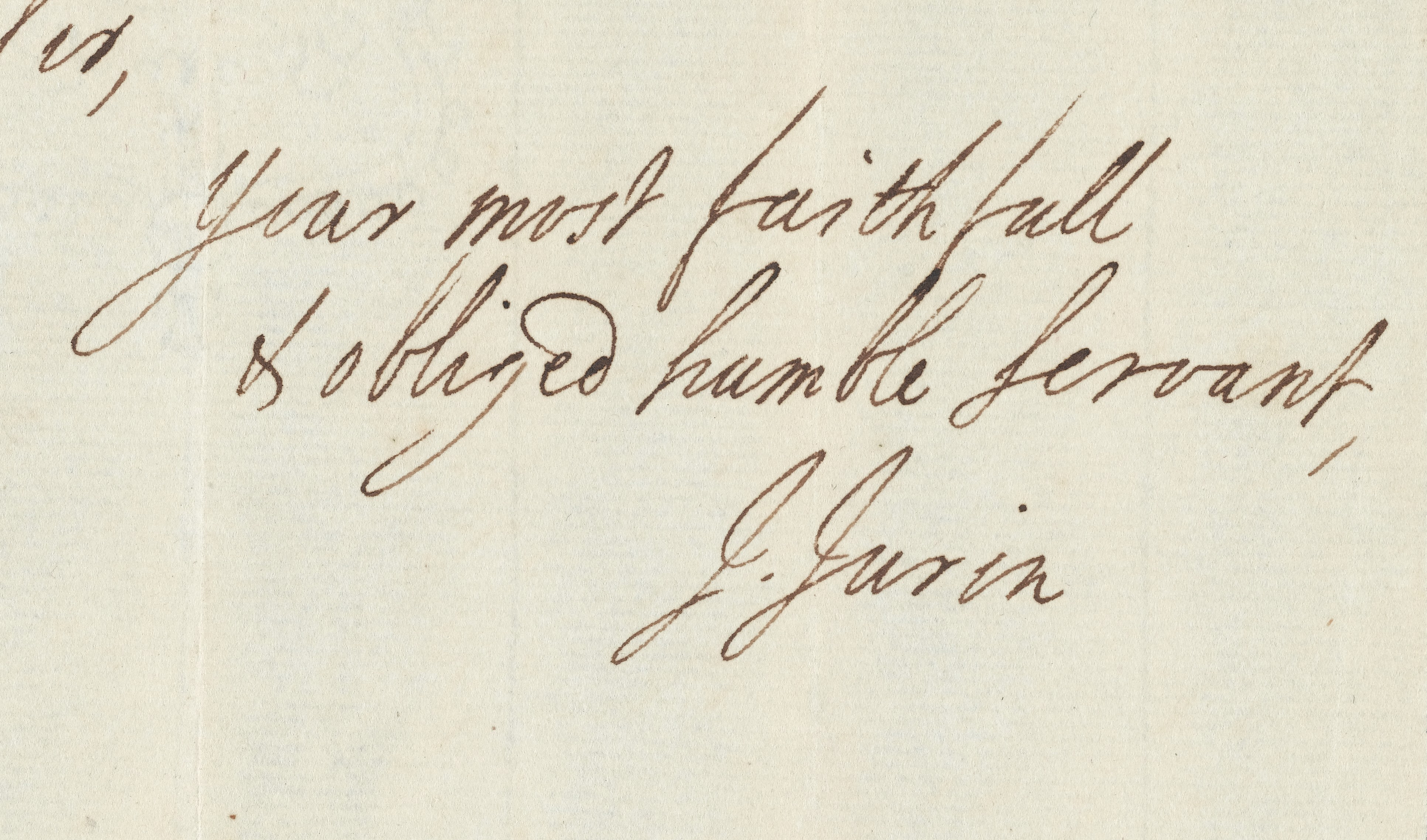 Signature of James Jurin. Taken from a letter to a Mr Dudley on 16th Aug 1726 Archives & Manuscripts